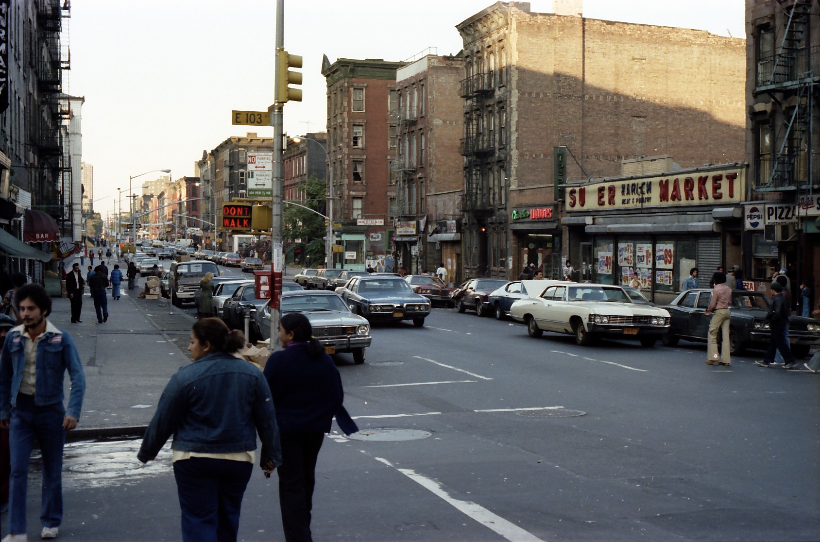 View northward from the southwest entrance to the 103rd Street Station. Summer 1977.